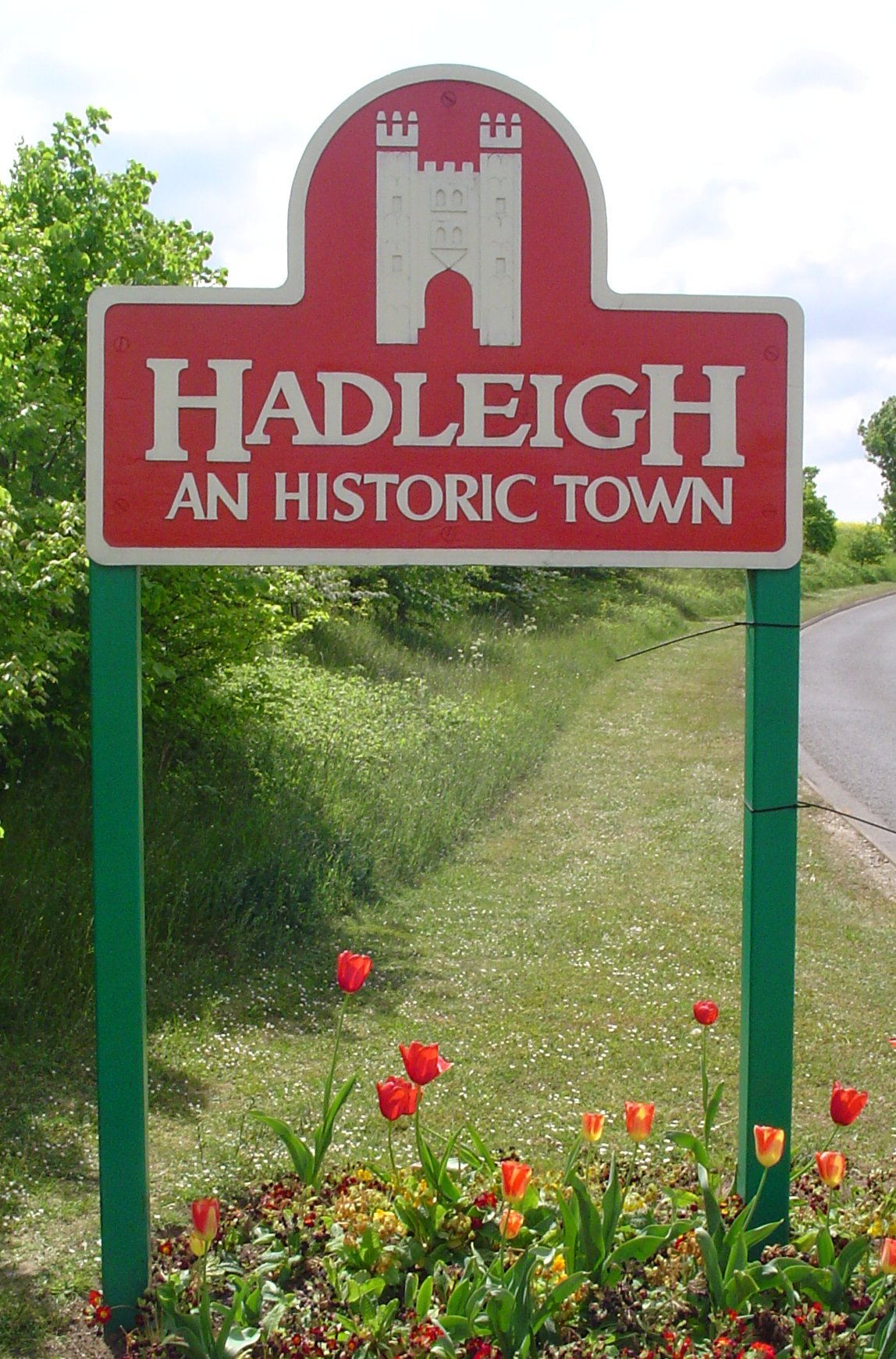 Signpost in Hadleigh, Suffolk